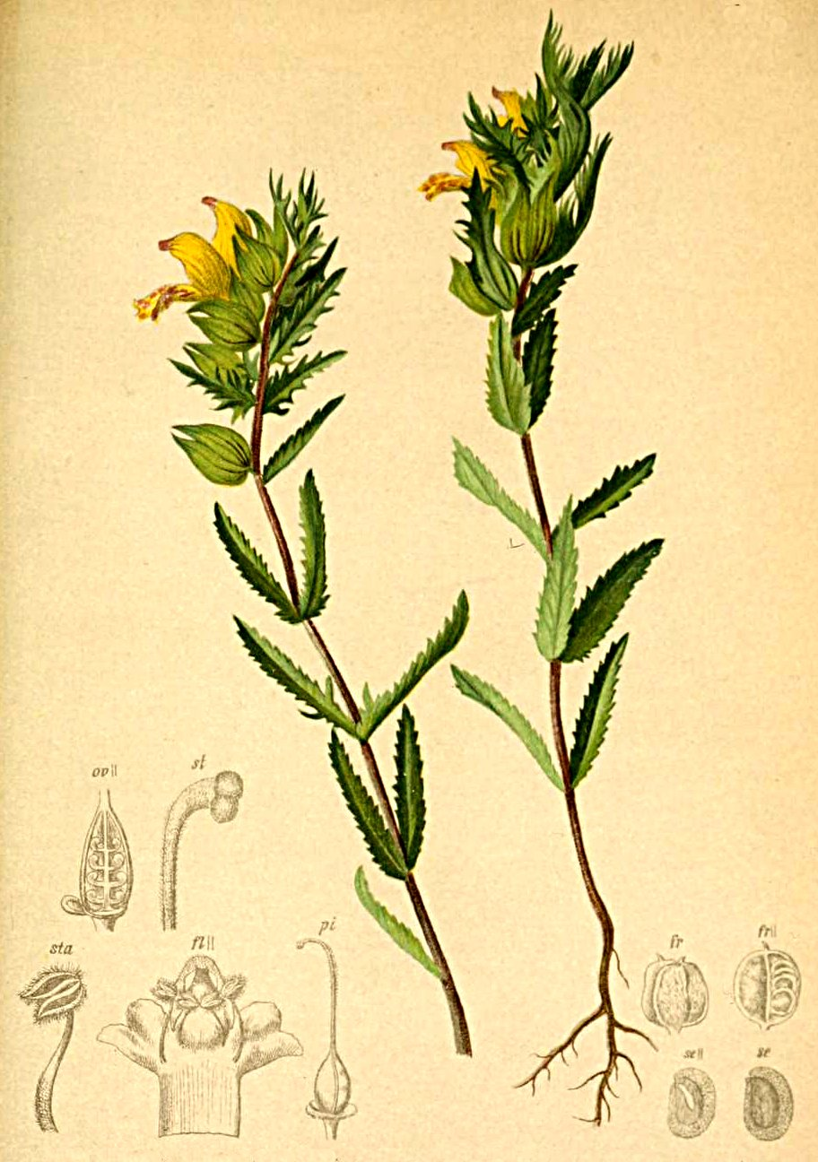 Rhinanthus aristatus (Rhinanthus glacialis)